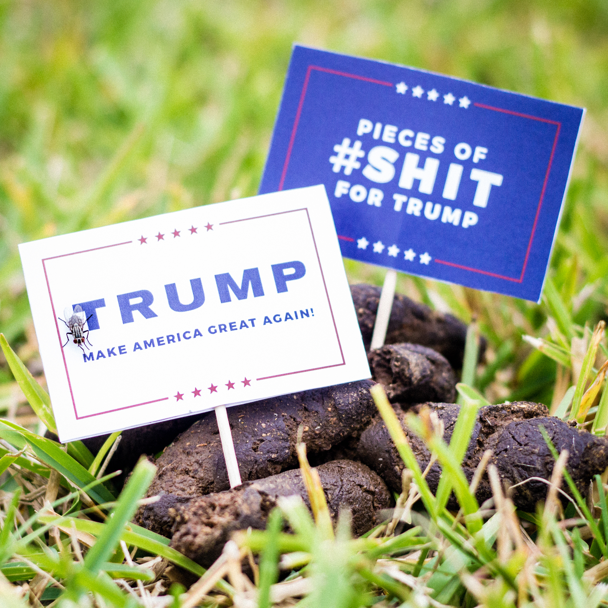 A piece of shit campaigning for Donald Trump -- go figure! DISSENT. REBEL. OBSTRUCT.